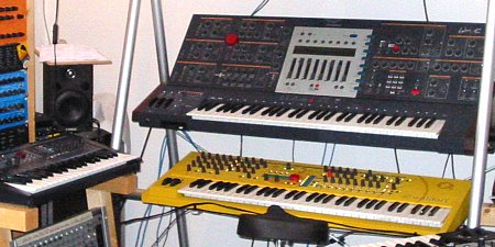 Waldorf WAVE atop Waldorf Q. Waldorf microQ keyboard at the left. Photo by Till Kopper (ich at tilll-kopper dot de)